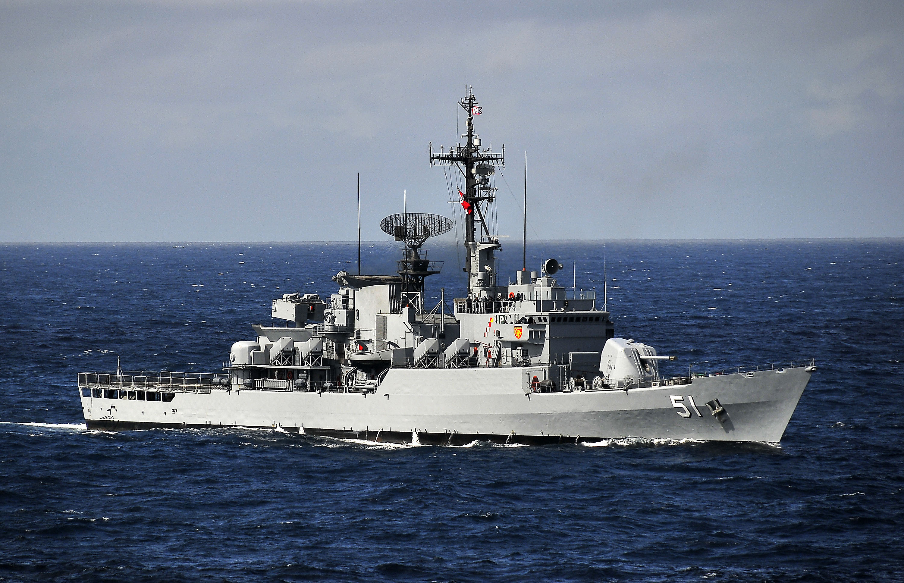 PACIFIC OCEAN (March 26, 2010) The Peru navy frigate BAP Carvajal (FM 51) is participating in Southern Seas 2010, a U.S. Southern Command-directed operation that provides U.S. and international forces the opportunity to operate in a multi-national environment. (U.S. Navy photo by Mass Communication Specialist 2nd Class Daniel Barker/Released)